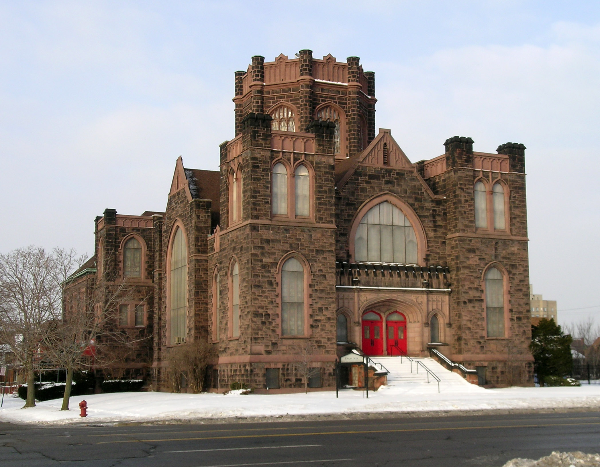 The Woodward Avenue Presbyterian Church on Woodward Avenue in Detroit, Michigan, that has been listed on the National Register of Historic Places(NRHP).